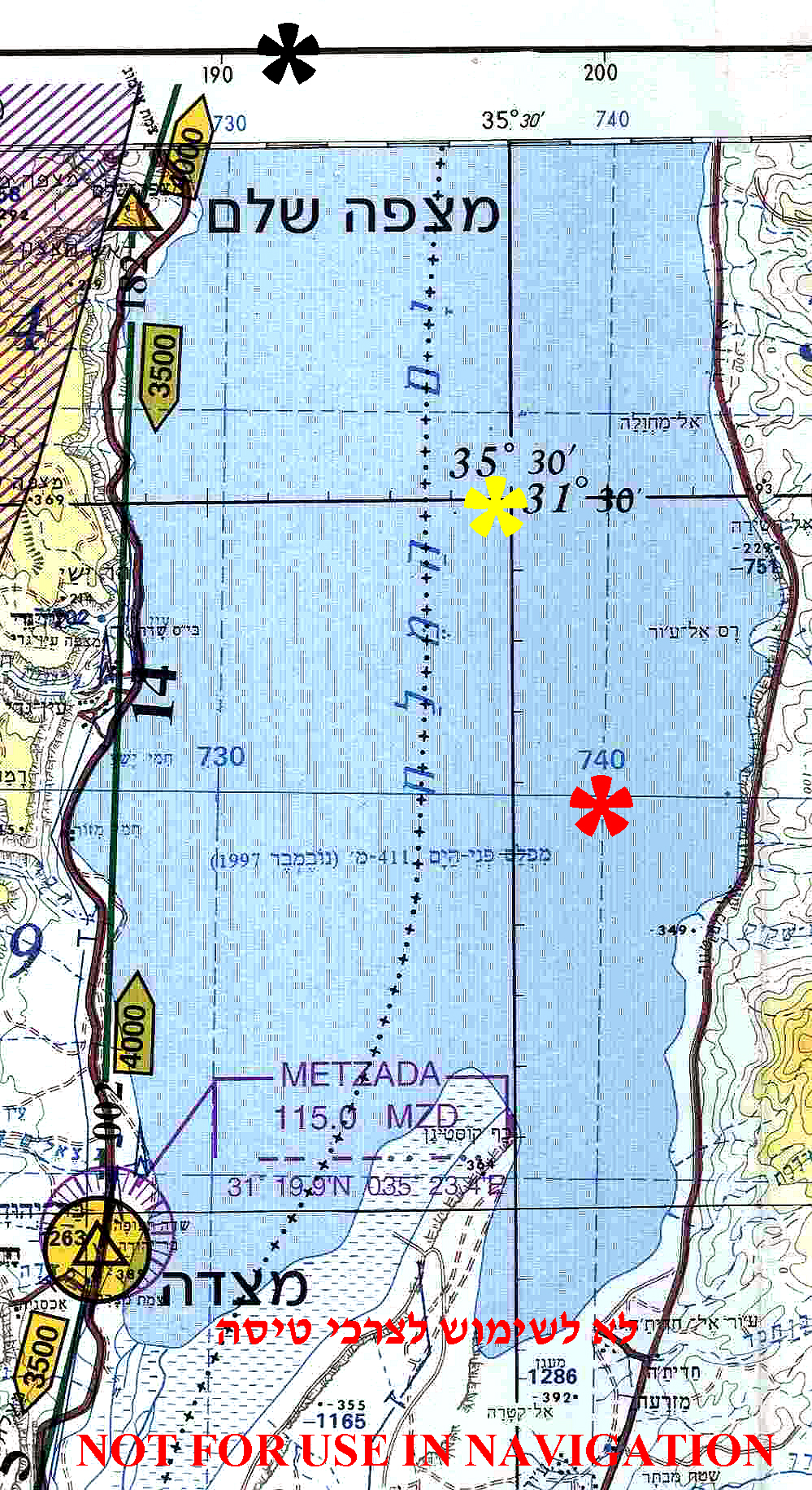 Universal Transverse Mercator (UTM) coordinates of Israeli topographical map. Image to be used for illustration of aviation articles. Not for actual navigation.